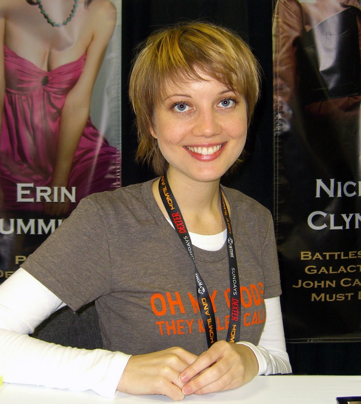 Actress Nicki Clyne, at the New York Comic Con, October 15, 2011. This photo was created by Luigi Novi. It is not in the public domain, and use of this file outside of the licensing terms is a copyright violation.